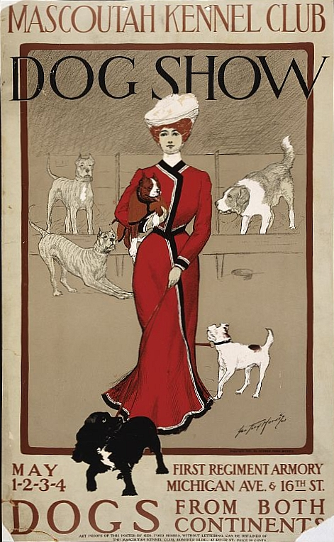 "Mascoutah Kennel Club dog show. Dogs from both continents."